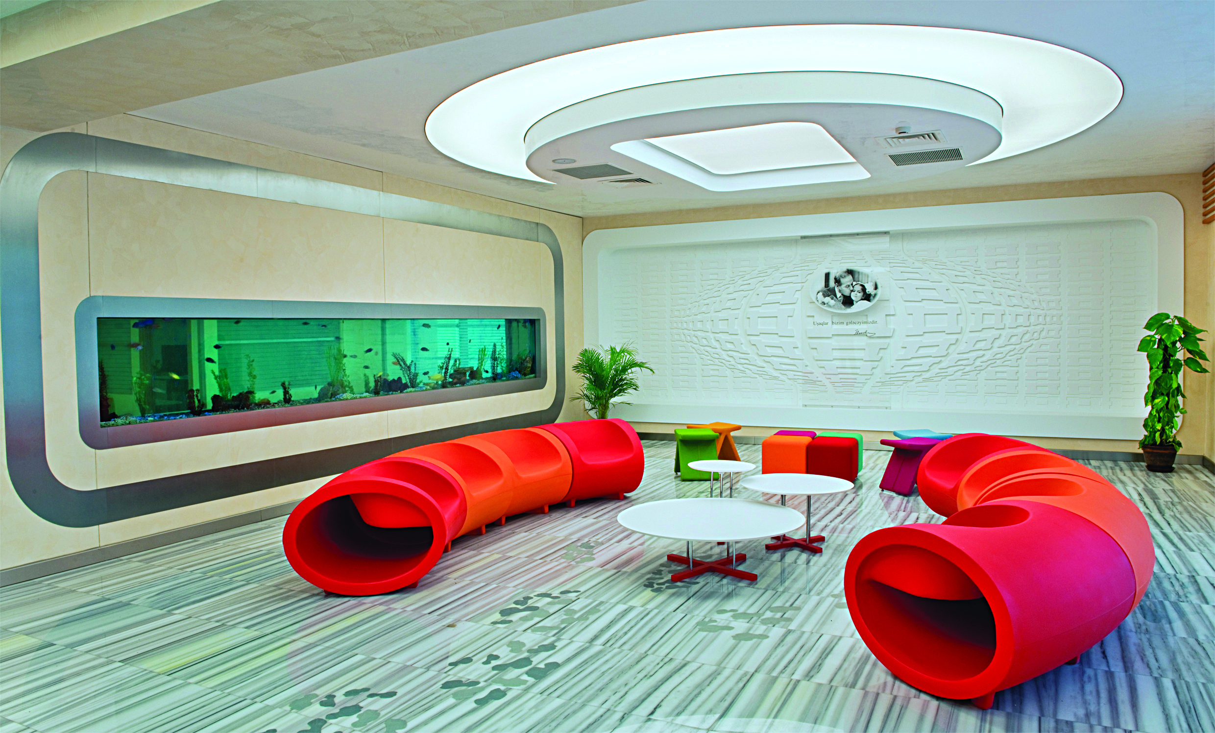 Baku Thalassemia Center (interior)